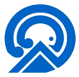 Awashimaura Niigata chapter